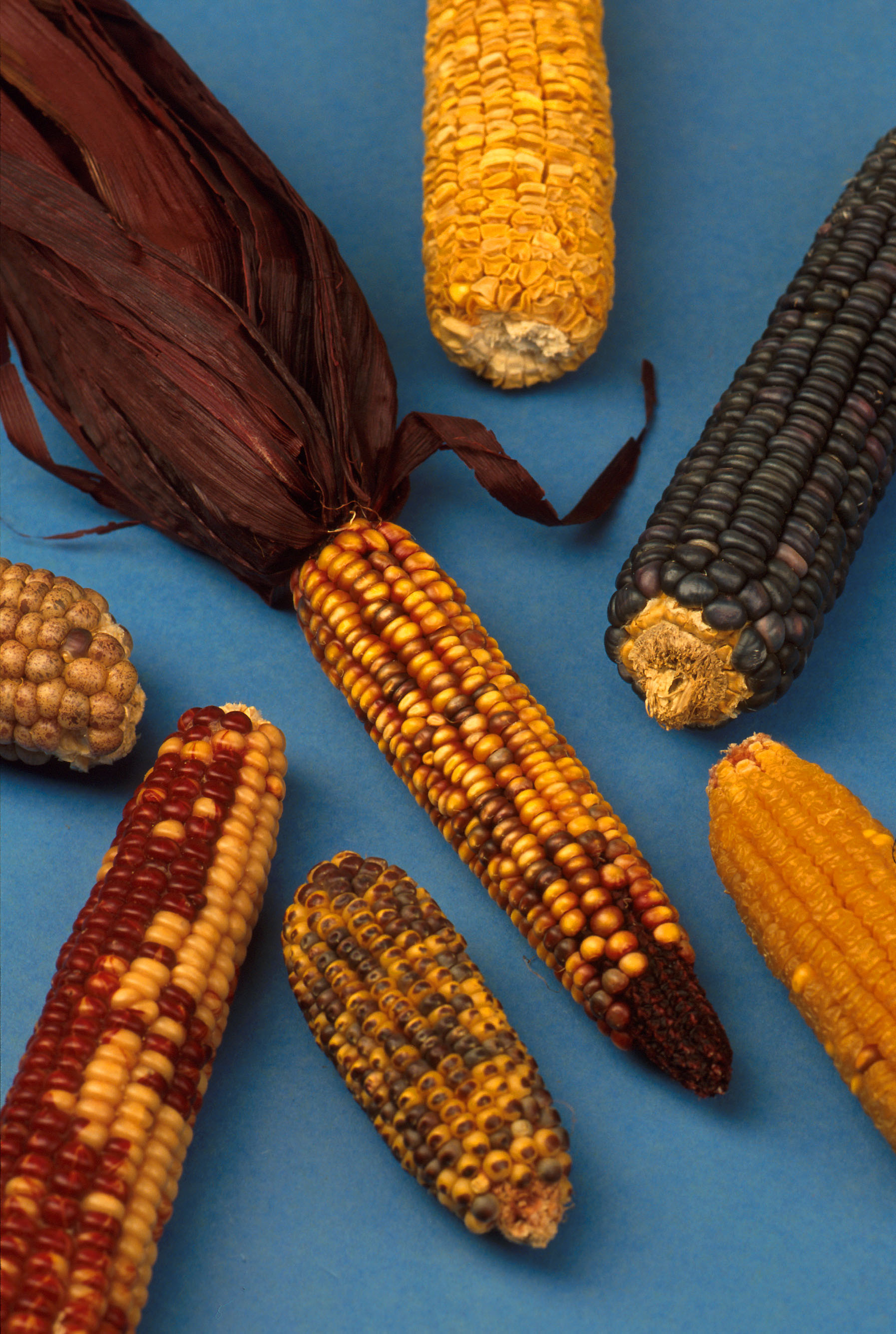 These ears of corn demonstrate some of the differences mutations maintained at the Maize Genetics Cooperation Stock Center.